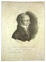 Incisione di Ottaviano Targioni Tozzetti custodita presso la Biblioteca dell'Orto Botanico dell'Università di Padova: Incisore: D.Caglier